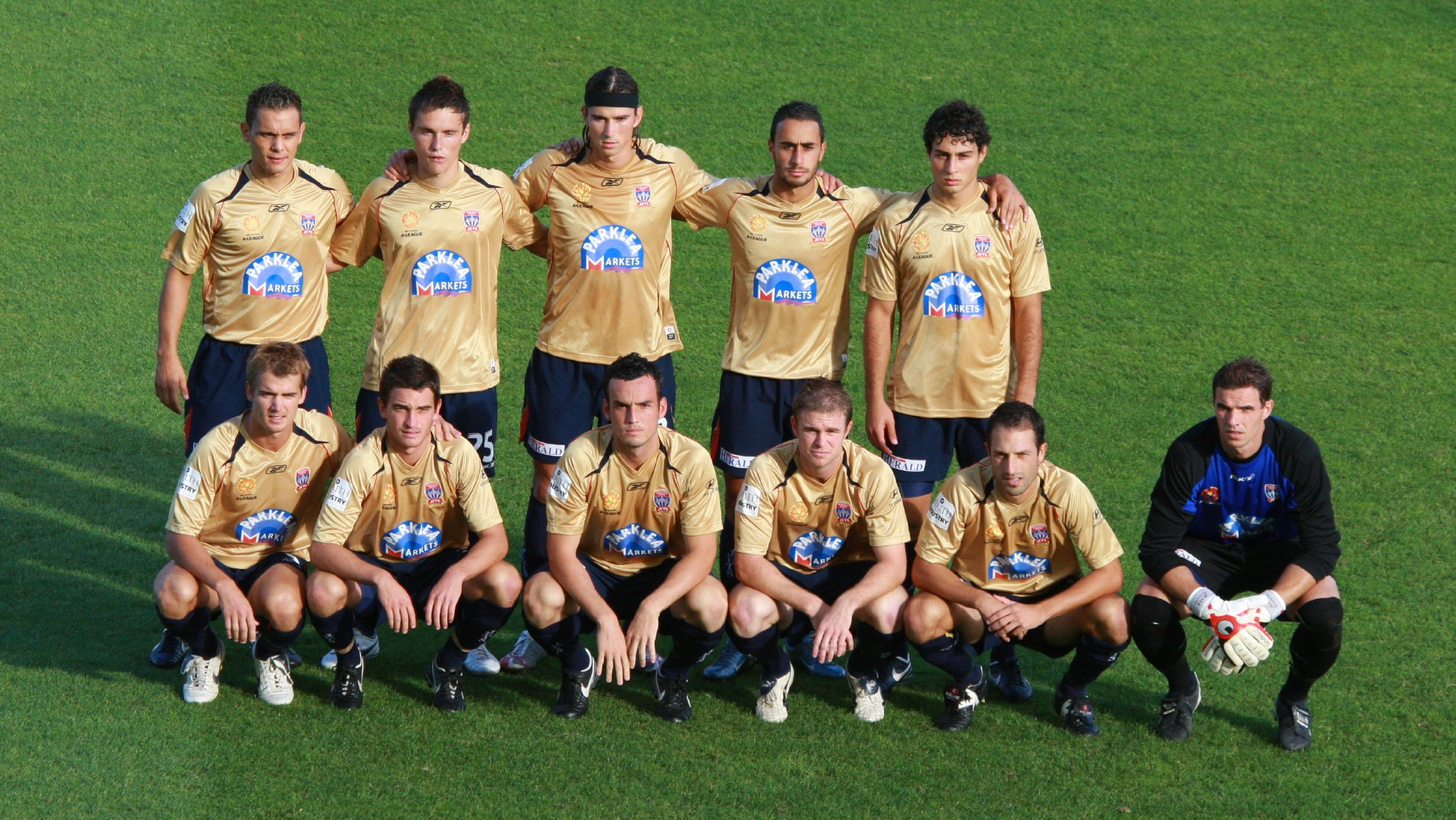 Newcastle Jets starting line-up against Queensland Roar for the 2008 Preliminary Final Back: Jade North, James Holland, Adam Griffiths, Tarek Elrich, Adam D'Apuzzo Front: Joel Griffiths, Stuart Musialik, Mark Bridge, Matt Thompson, Andrew Durante, Ante Covic